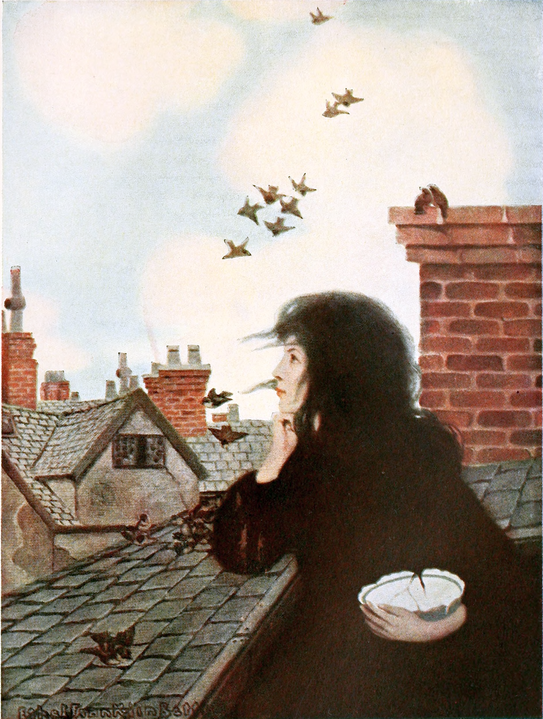 The sparrows twittered and hopped about quite without fear.